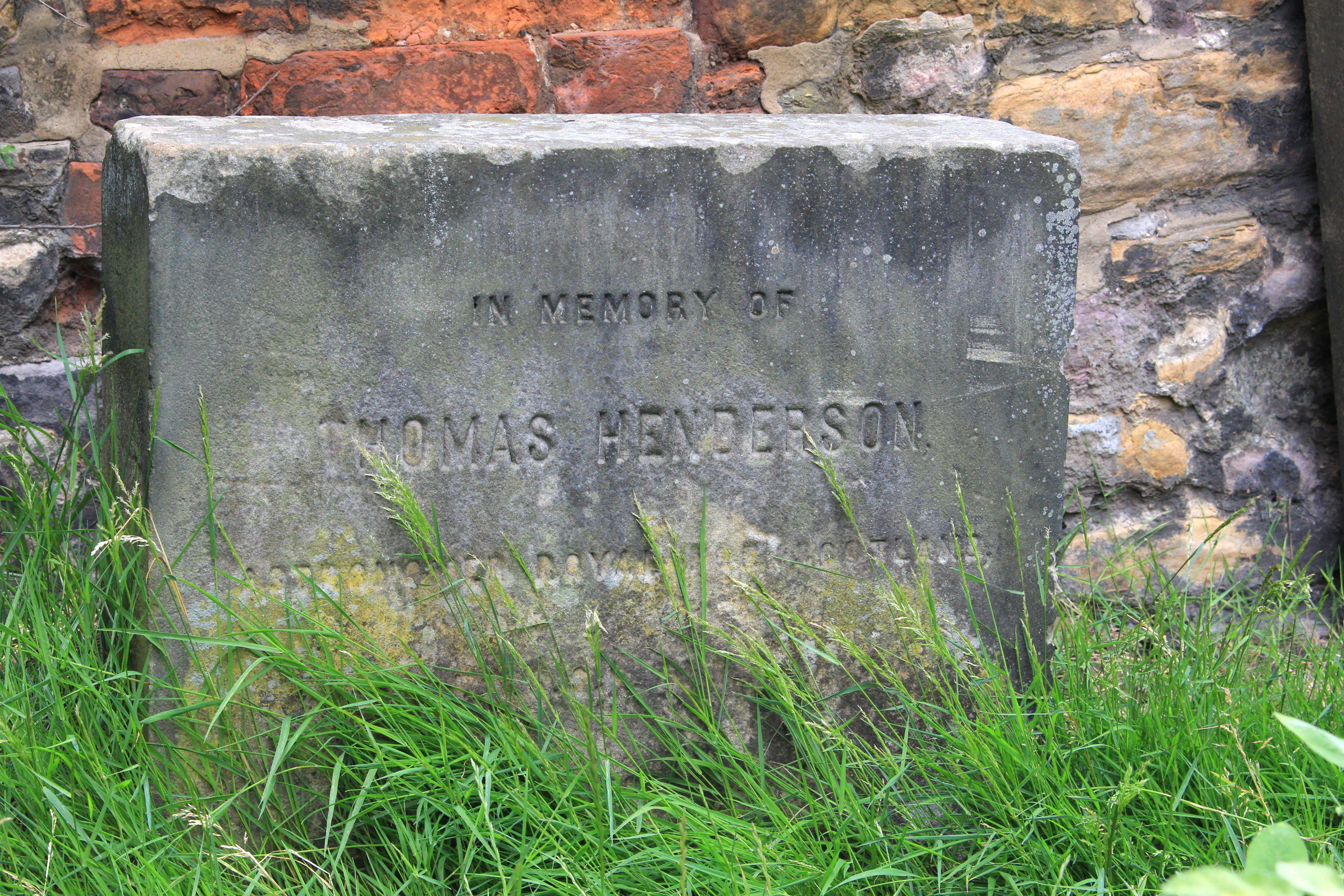 This gravestone is located in a northern corner of Greyfriars Kirkyard, Edinburgh. The inscription reads "In memory of Thomas Henderson, Astronomer Royal for Scotland, F.R.S.S.L. and E. Born 28th December 1798. Died 23rd November 1844."